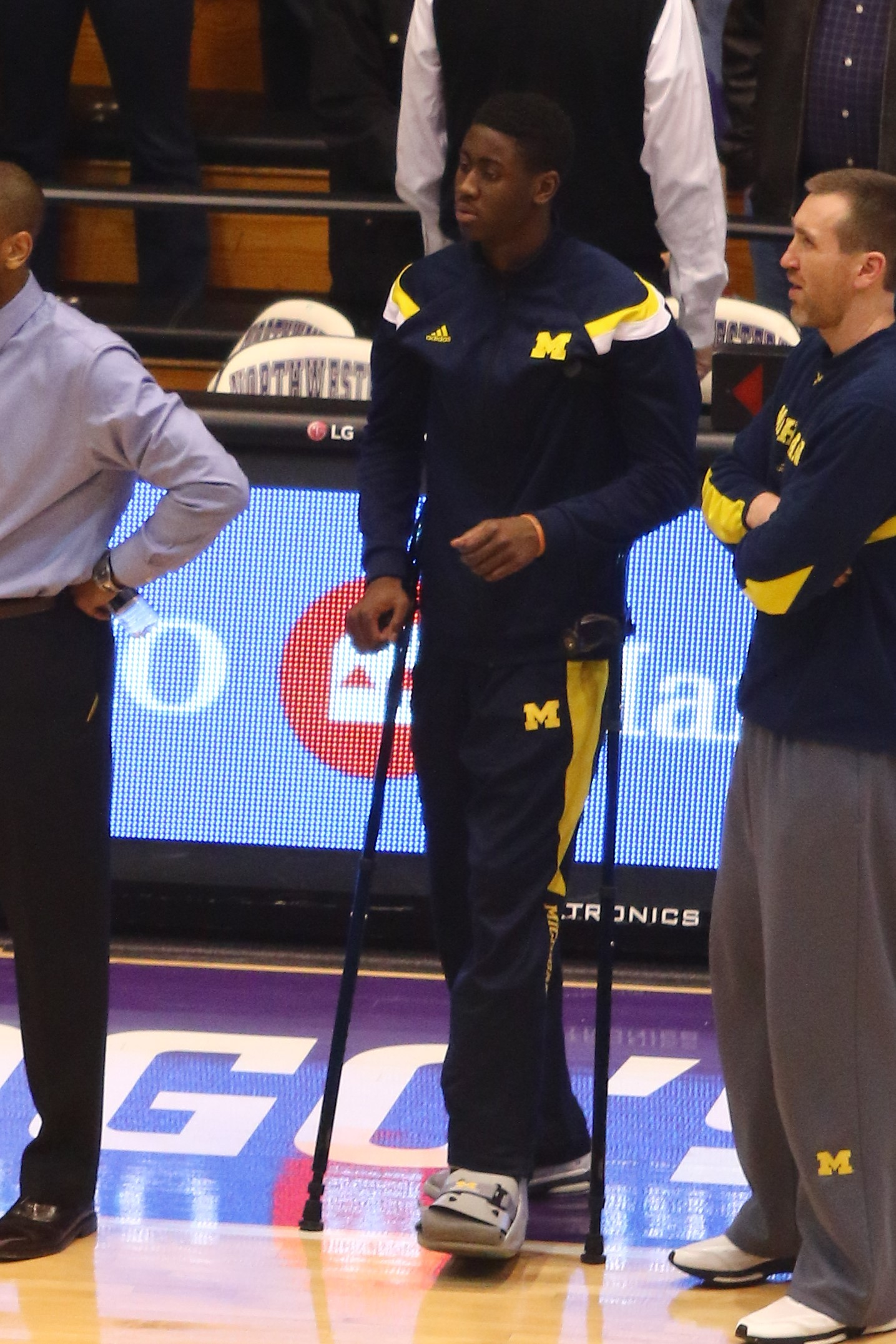 Caris LeVert for the w:2014–15 Michigan Wolverines men's basketball team at Welsh-Ryan Arena